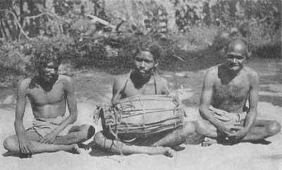 Drummers of Vedars social group in Vakarai town assembled before a ceremony